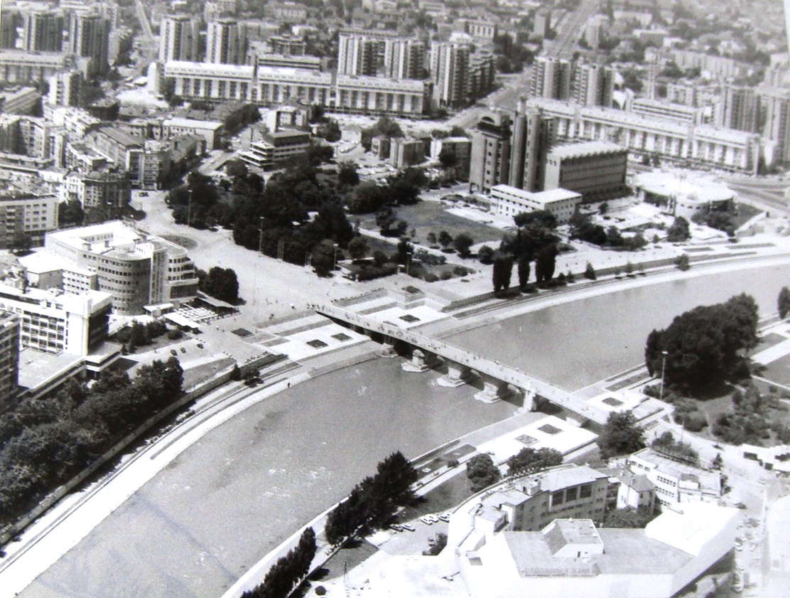 Panorama of Skopje, from 1970s This media file is produced by Wikipedian in Residence in Category:Wikipedian in Residence at DARM in 2016.